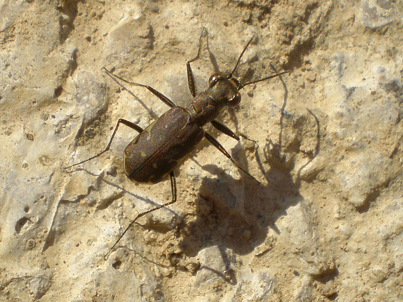 Near Tàrrega, Lleida, Catalonia. - August 4, 2007